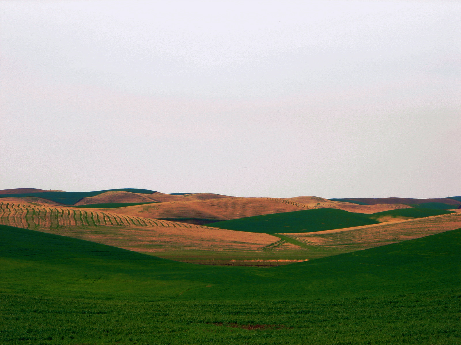 Walla Walla Valley in Washington State. Vineyards are visible in the background.